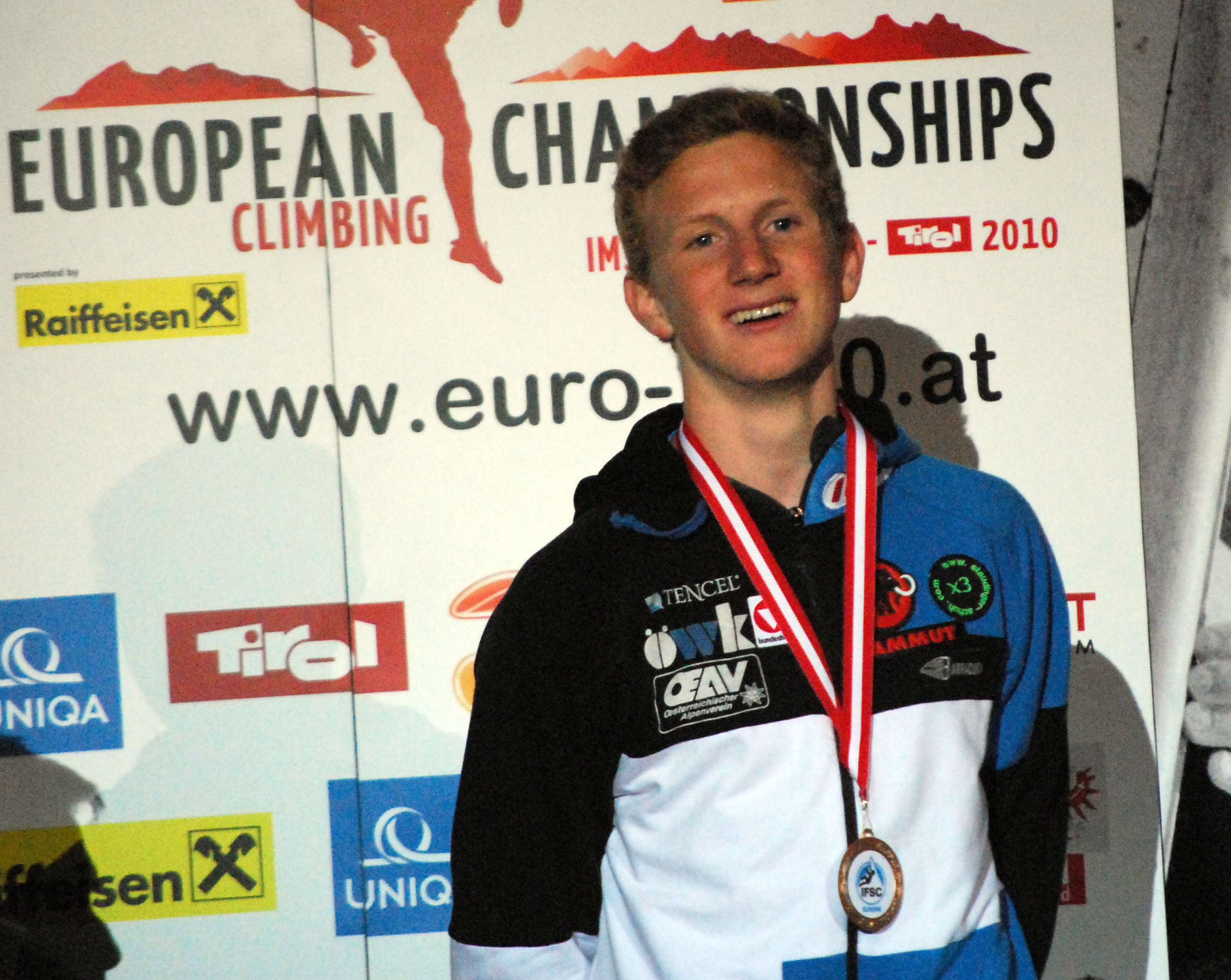 Jakob Schubert, EC, Bronze medal, Imst 2010